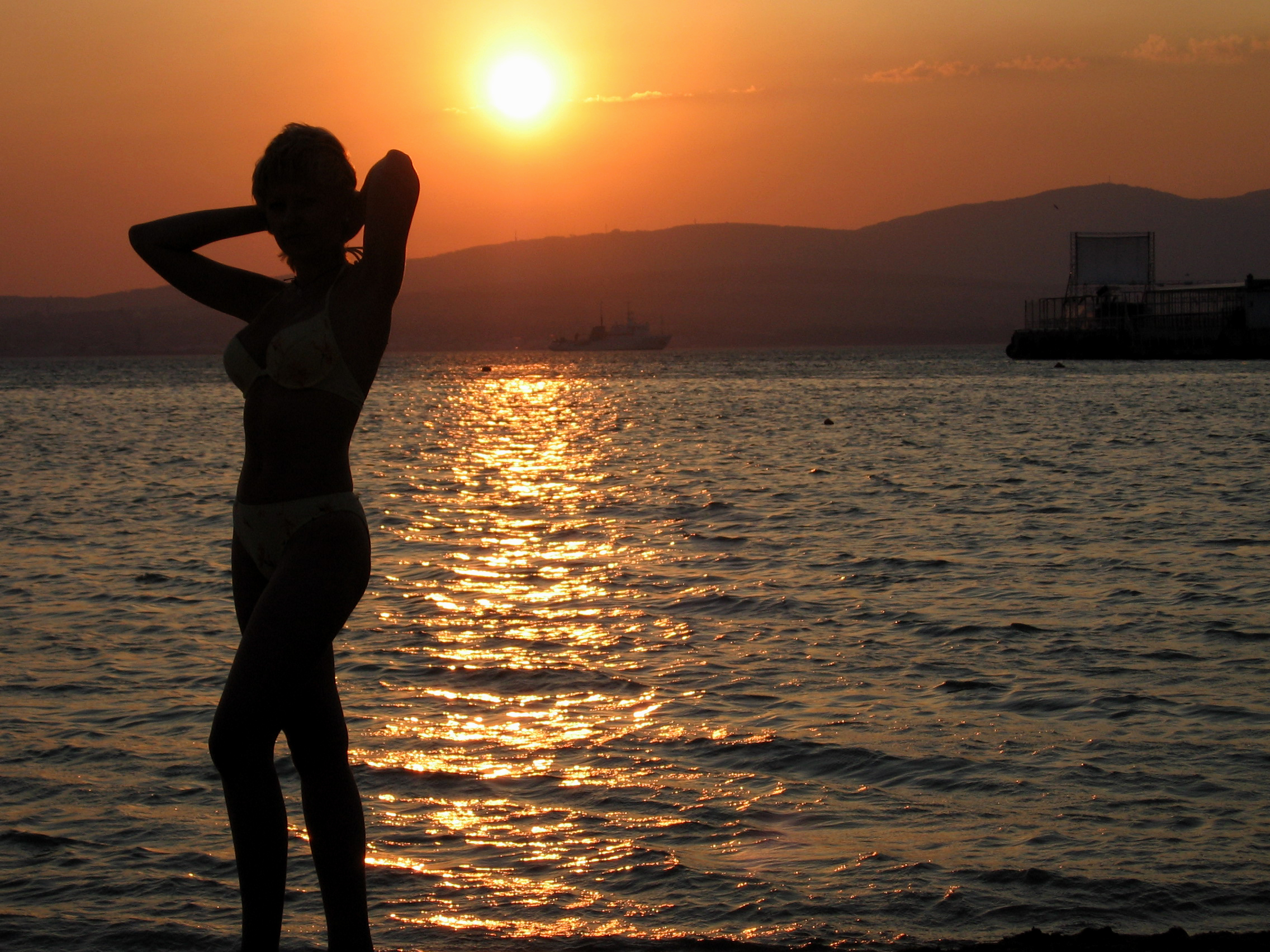 Evening beach in Gelendzhik